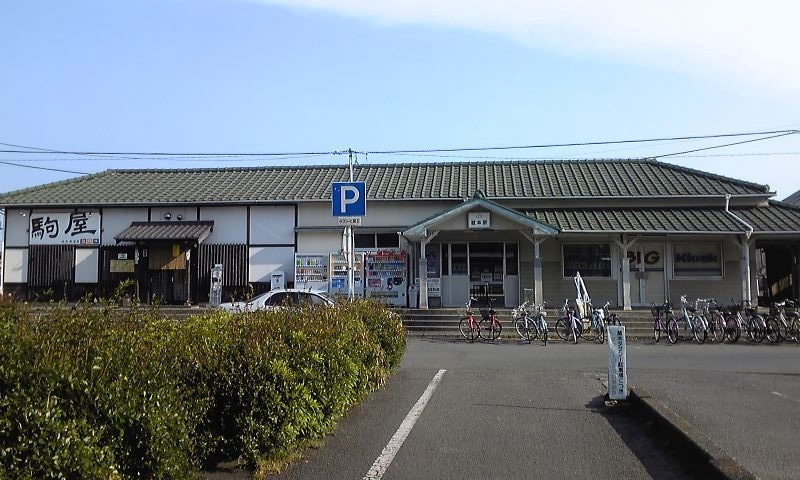 This is a picture of St.Kuramoto.